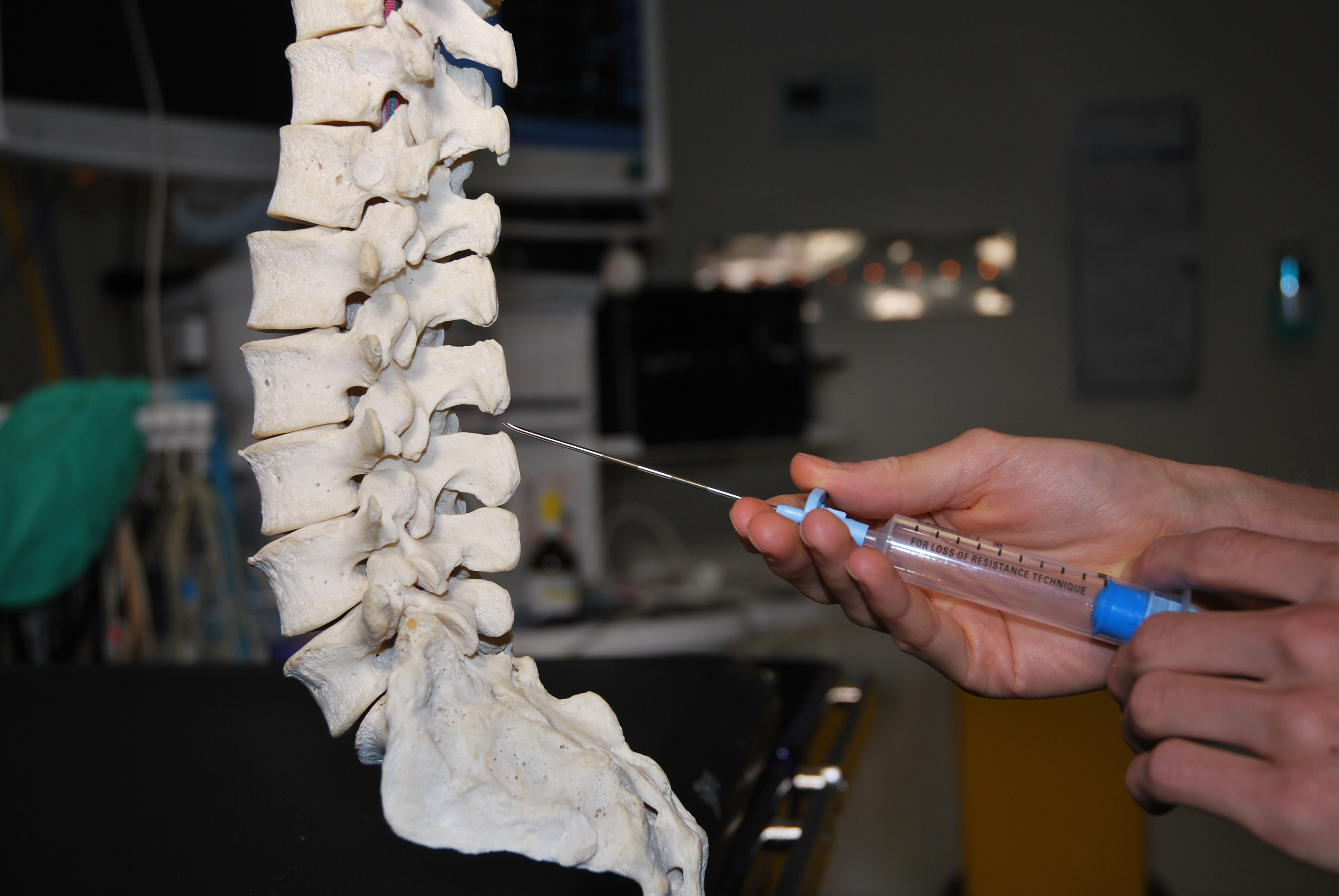 A needle may be inserted between the spinous processes into the epidural space and local anaesthetic agents may be introduced through this needle to provide anaesthesia or analgesia for labour or surgery.